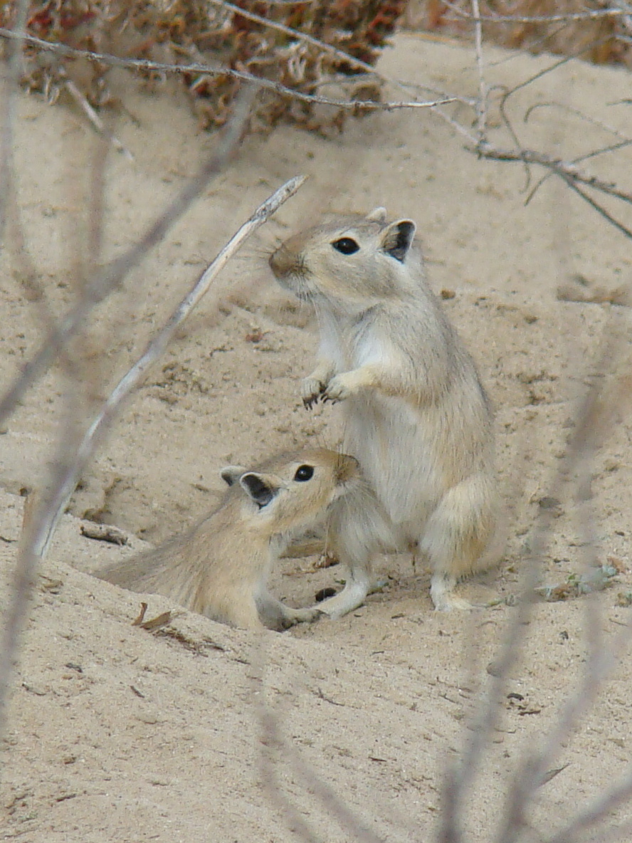 Great gerbil (Rhombomys opimus). Baikonur-town, Kazakhstan.